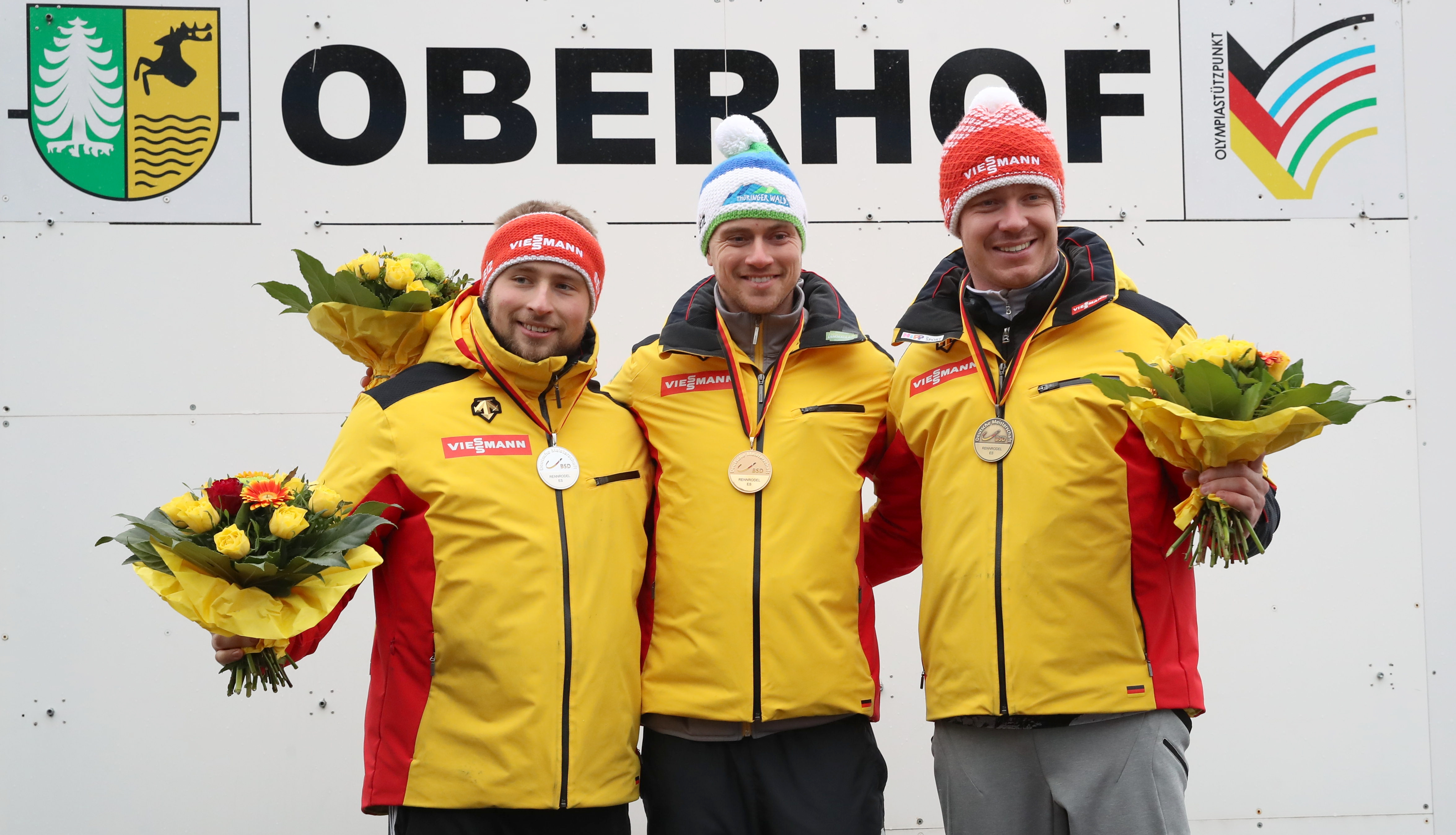 Victory Ceremony at the German Luge Championships 2019 in Oberhof